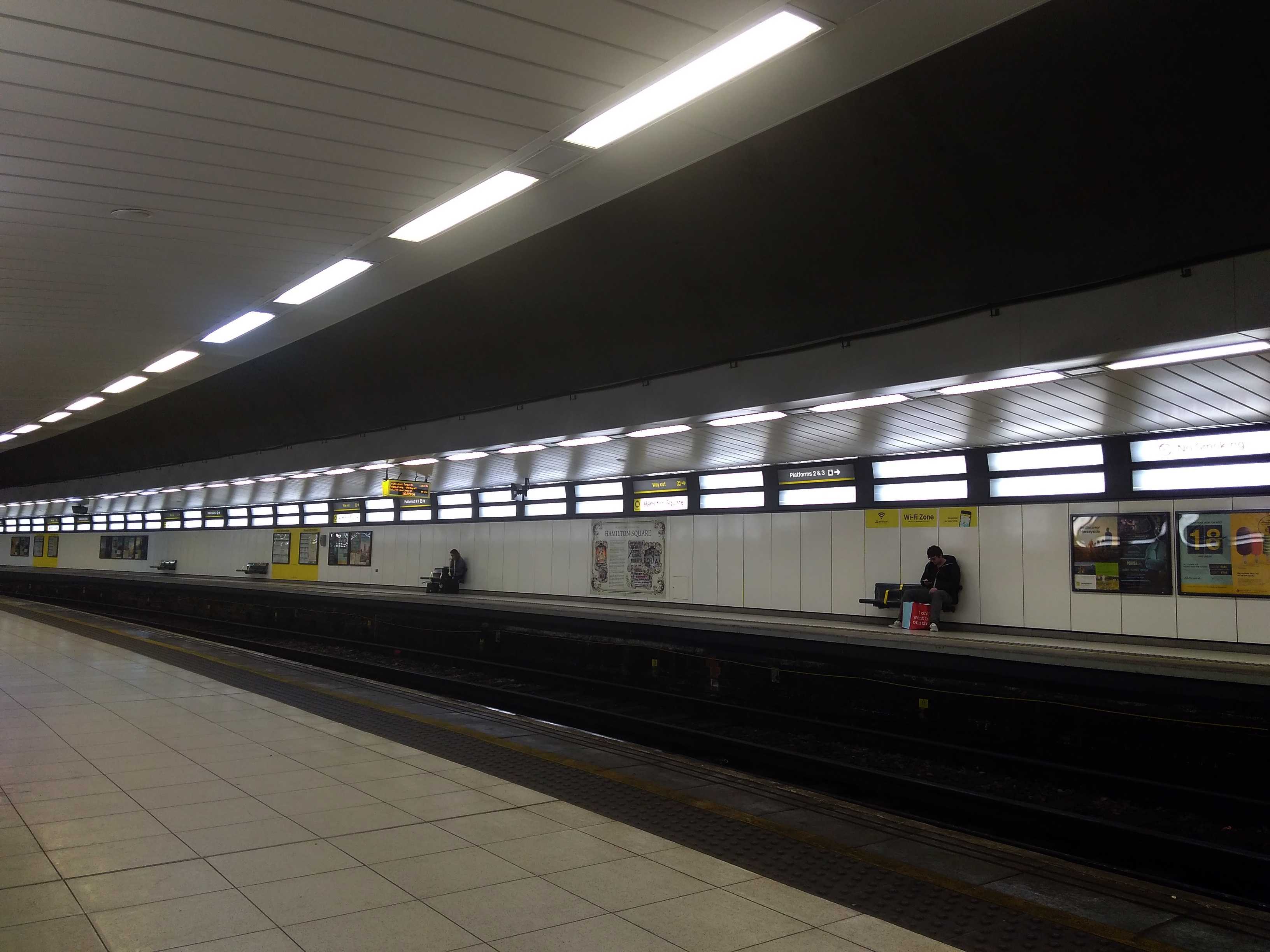 Hamilton Square